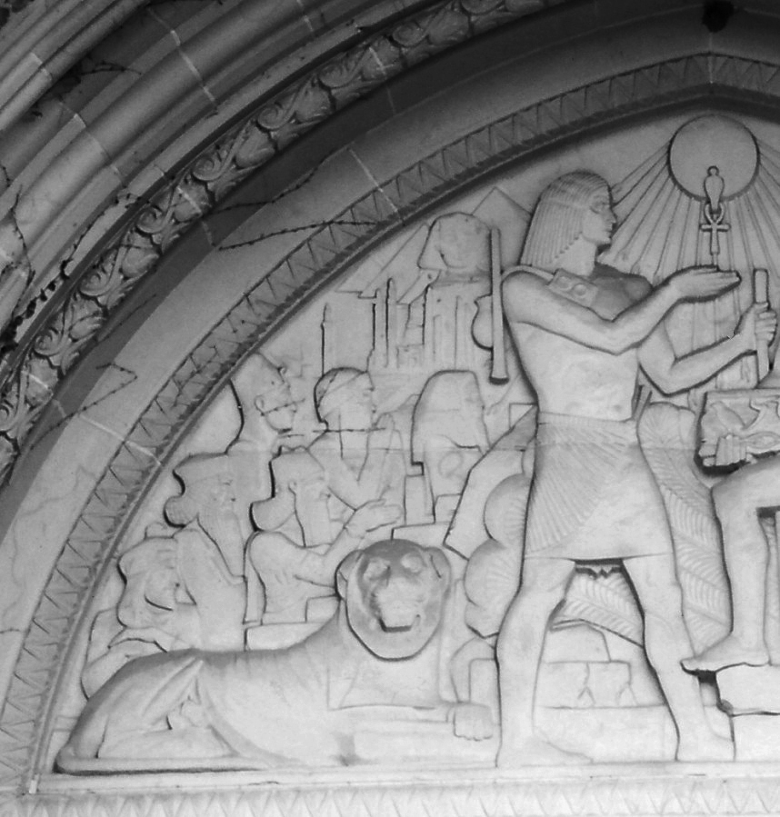 photo by Einar Einarsson Kvaran aka Carptrash 07:10, 11 March 2007 (UTC) of Ulric Ellerhusen's tympanum at the Oriental Institute, Chicago